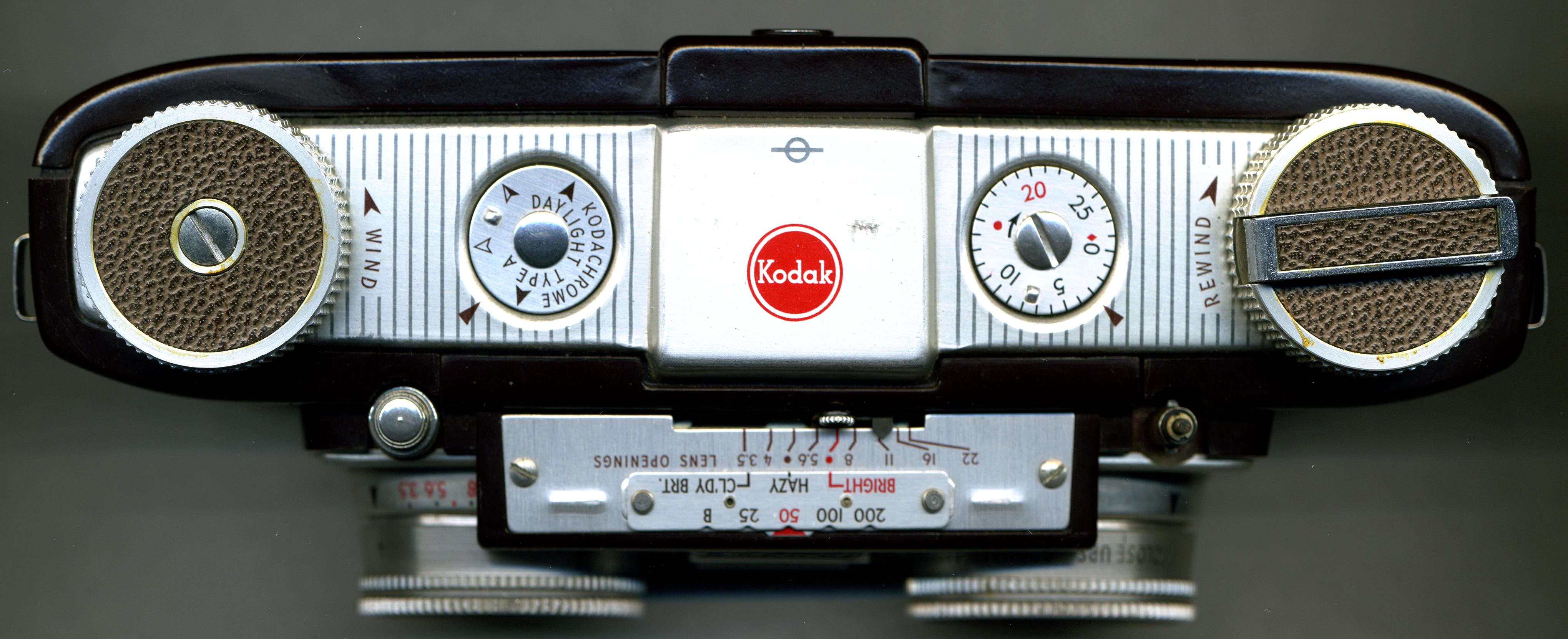 The Kodak Stereo camera, top view. The F stop numbers on the depth of field scale are somewhat fuzzy because of the limited depth of field inherent in the scanner.